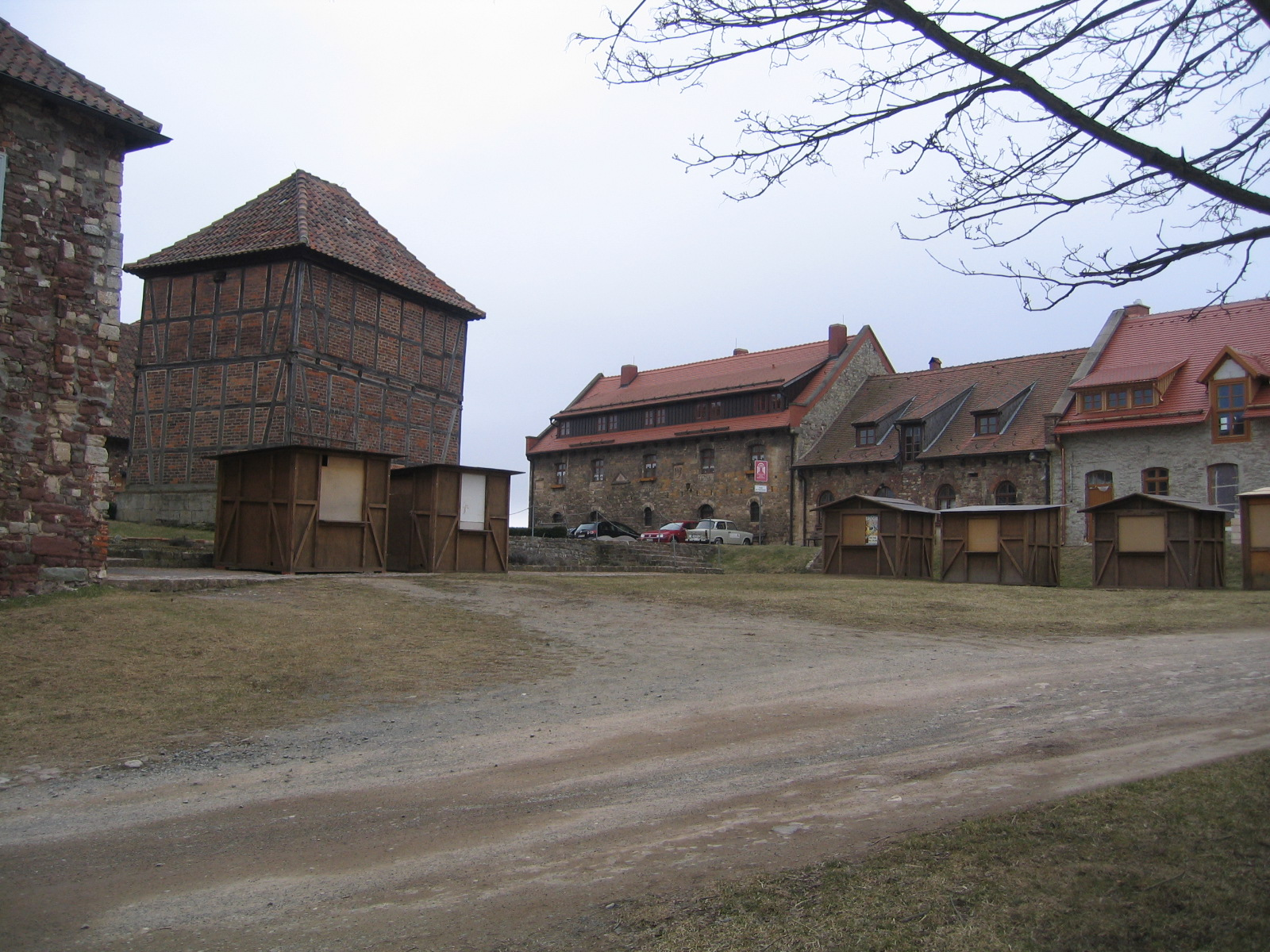 Courtyard of the former castle and monastery of Konradsburg, Saxony-Anhalt, Germany.